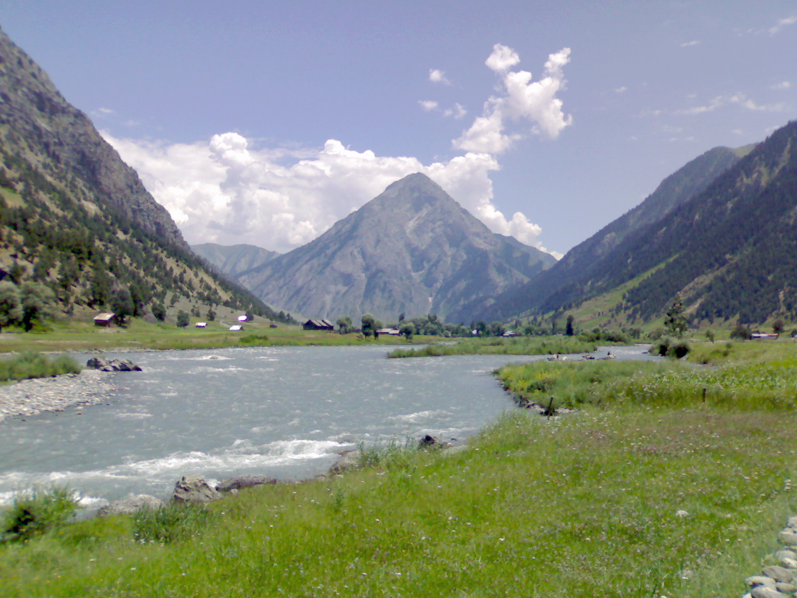 This Photo contains the pyramid shaped Habba Khatoon mountain named after Queen of Kashmir.